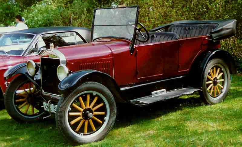 Ford Model T Touring 1926